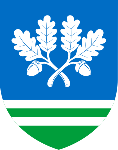 The Coat of arms of the Tapa Commune (Parish) from 2017, Estonia